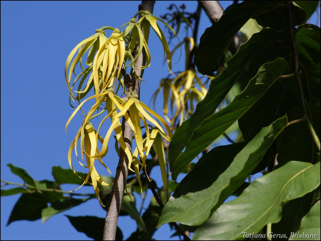 Cananga odorata What a disappointing!!! I could not smell a hint of the famous aroma of these flowers. What is wrong?! Go figure... Of Southeast Asian and NE Australia origin, ylang-ylang, or ilang-ilang, is a medium-size tree that has been introduced into many islands in the Pacific for its fragrant flowers - it is valued as the source for oil, which figures prominently in the perfume industry and aromatherapy. Most famous - perfume "Chanel #5" and "Moscou Rouge" духи "Шанель № 5" практически идентичны "Красной Москве", т.к. сделаны по её рецепту. "Аромат Знаменитых духов "Красная Москва" был создан в 1913 году к 300-летию Дома Романовых. Назывались духи "Любимый букет императрицы." Они были переименованы в 1925 году самим автором -французским парфюмером Августом Мишелем, который продолжал работать на фабрике и после революции. Он же предложил и название "Новая Заря"." А по его рецепту Шанель создала "свой" букет. - Can you believe it?! I never had Chanel, but, oh yes!, i always have «Красная Москва»! :)) Anyway,... why I could not sense any aroma near the tree? Actually, it was - the aroma of ... marigolds growing below. :( Photographed in : Mt. Coot-tha Botanic Gardens, Brisbane, Australia